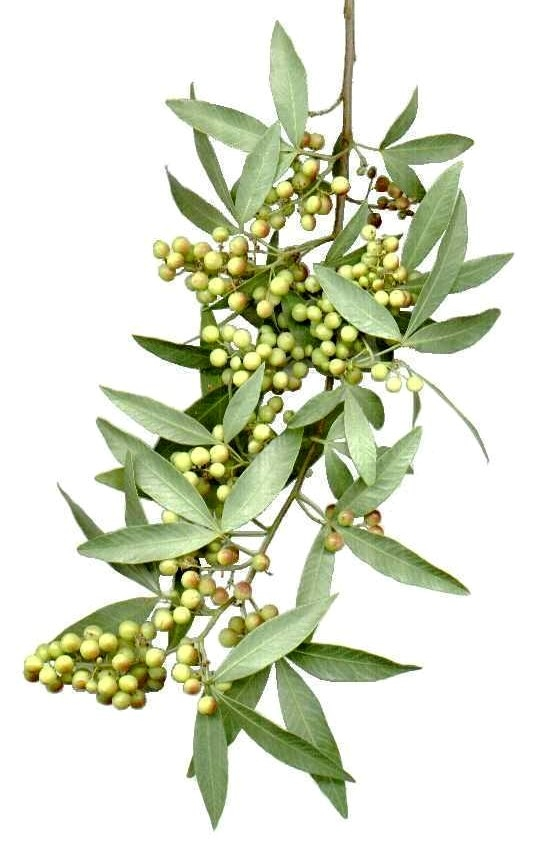 Foliage and fruit of a White karee